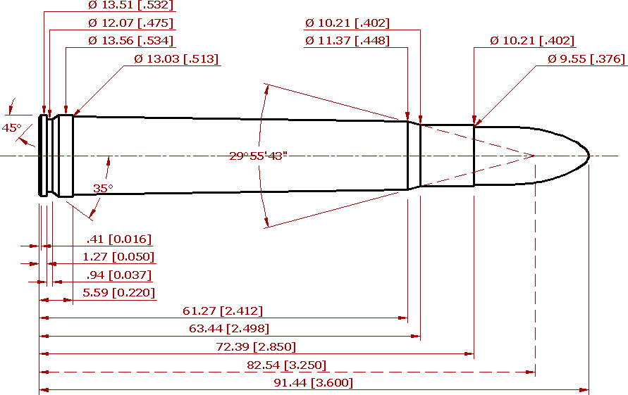 CIP compliant schematic of the .375 H&H Magnum cartridge. All values in mm (in).